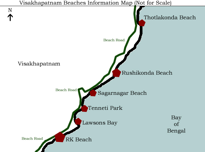 An information map about Beaches in Visakhapatnam City